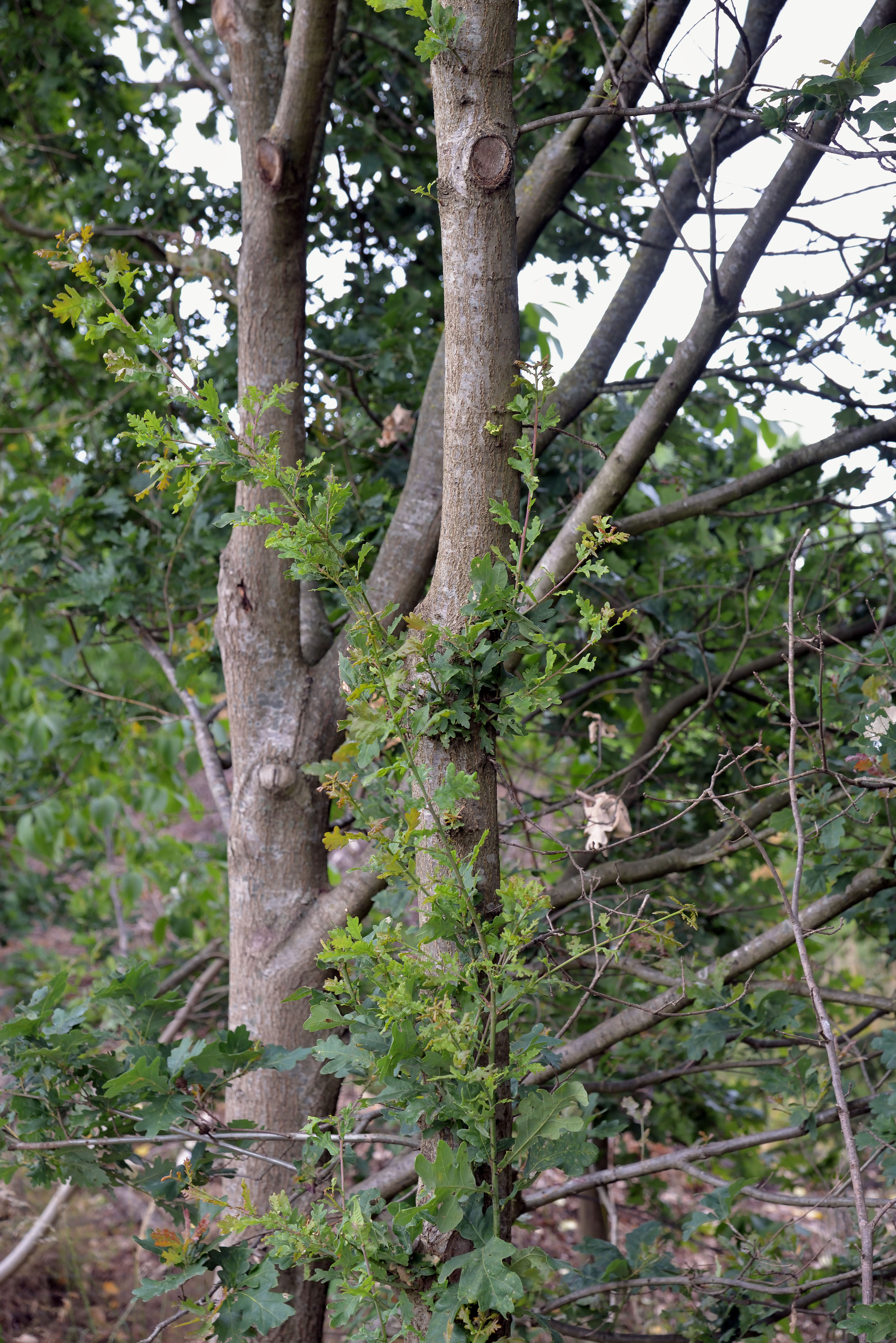 Quercus robur water sprout